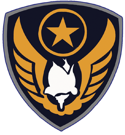 Logo KODIKAU Indonesian Air Force